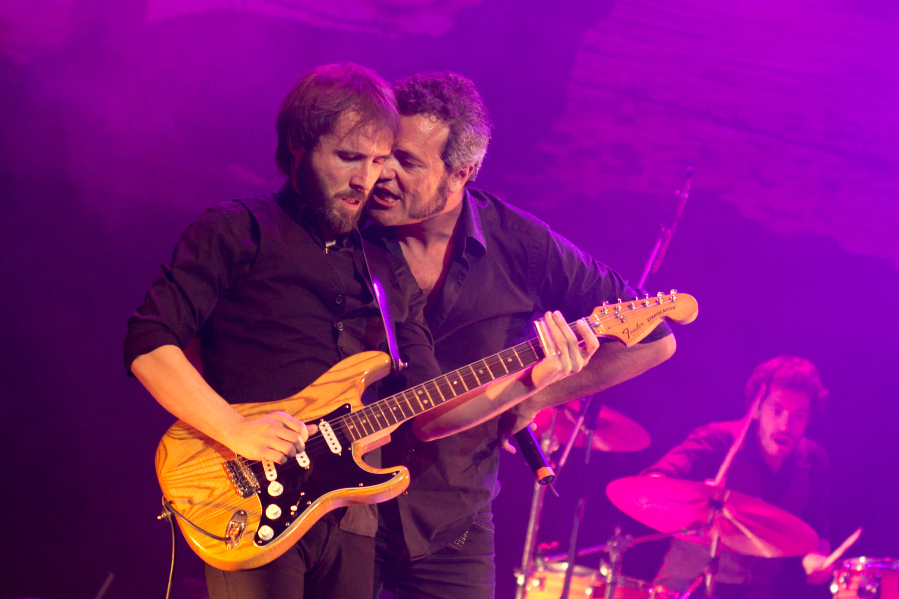 Spanish rock band M Clan live in May 2013.